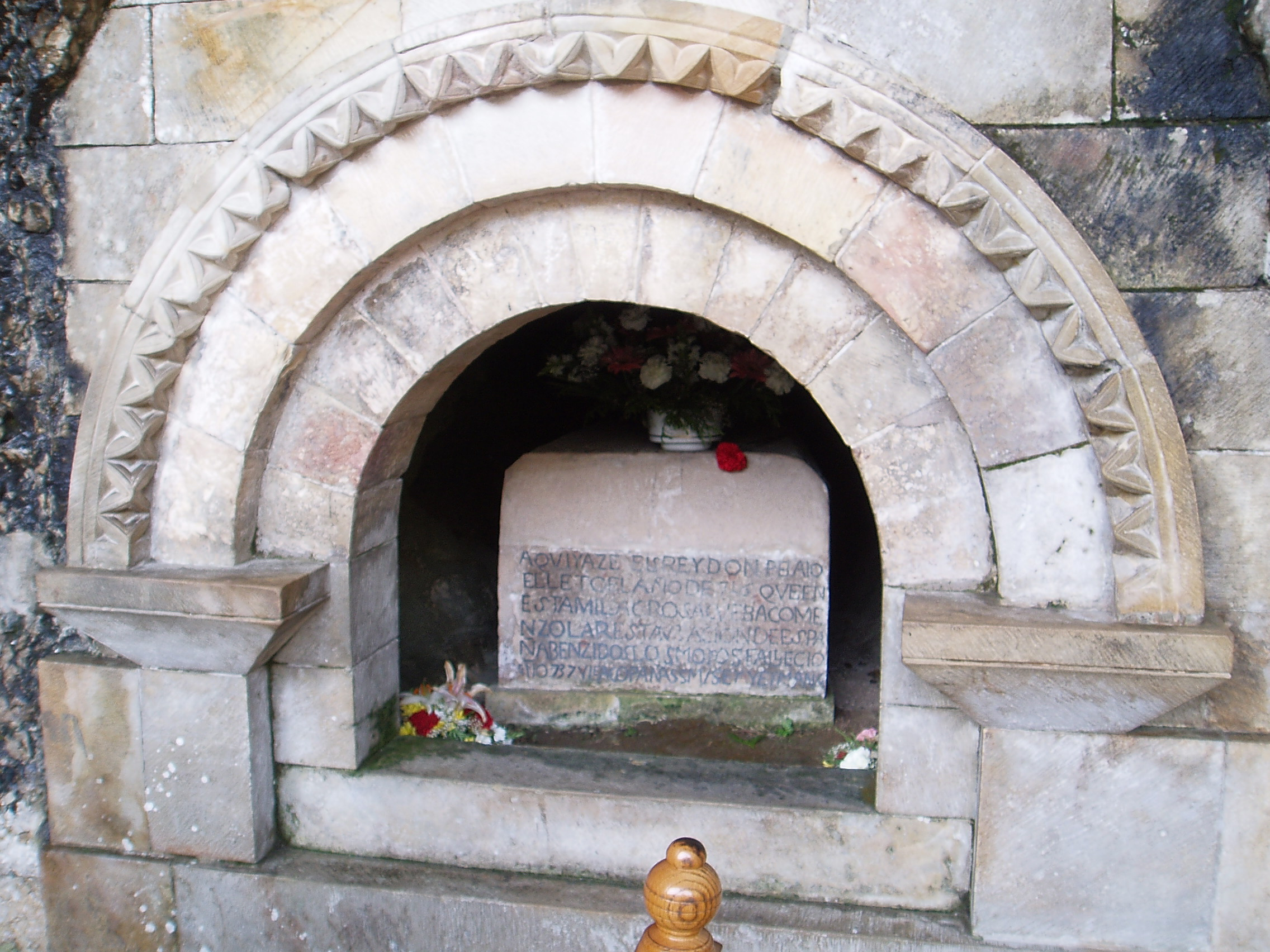 Tomb of King Don Pelayo of Asturias at Covadonga Sanctuary, Cangas de Onis, Asturias, Spain